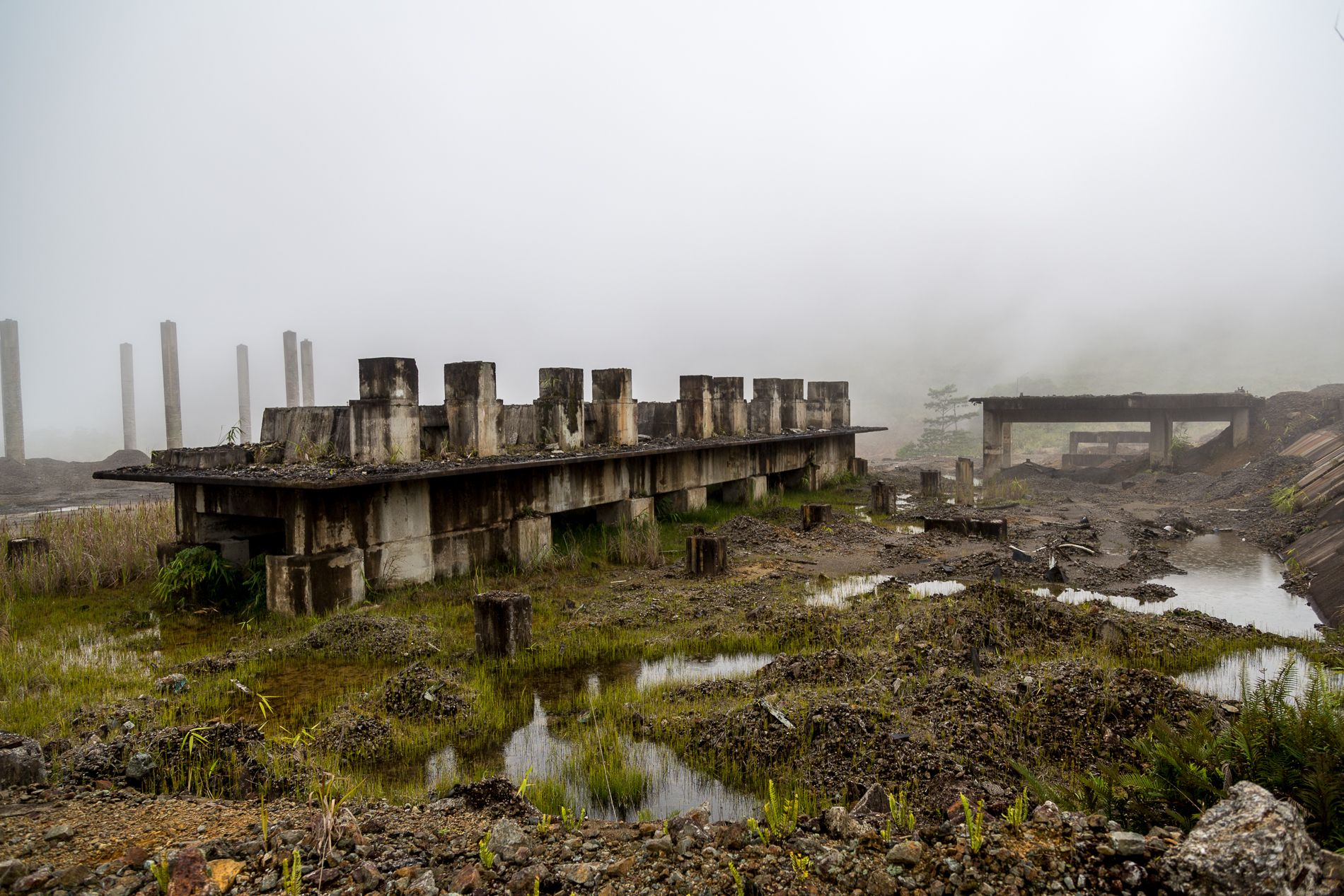 Ranau, Sabah: Mamut Copper Mine, the rocks went first to a compund with a three stage crushing unit